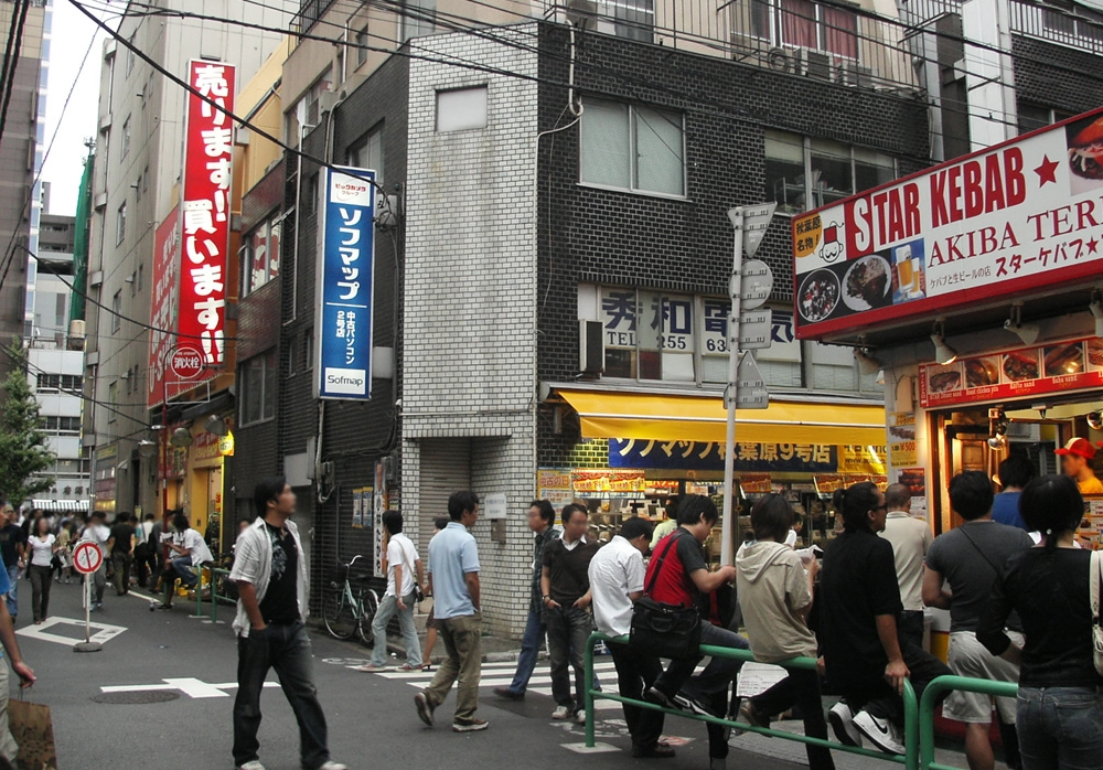 Sofmap Akihabara 9, Tokyo, Japan